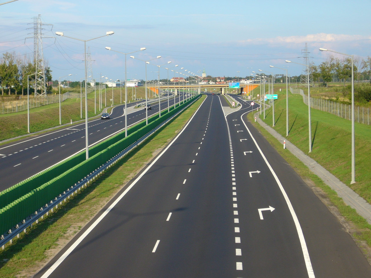 Motorway A2 in Poland, Poznań. "Komorniki" junction.